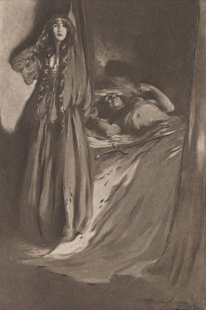 Eric Pape's illustration for Lyrics and Old World Idylls by Madison J. Cawein (1907). "O'er his heart, The long blade paused and — then descended hard. Unfleshed, she [Morgane] flung it by her murdered lord [King Urience], And watched the blood spread darkly through the sheet, And drip, a horror, at impassive feet Pooling the polished oak. Regretless she Stood, and relentless; in her ecstasy A lovely devil: demon crowned, that cried For Accolon, with passion that defied Control in all her senses; clamorous as A torrent in a cavernous mountain pass That sweeps to wreck and ruin; at that hour So swept her longing tow'rds her paramour." (Cawein's "Accolon of Gaul" (1889), p. 302-303)